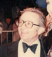 Arte Johnson at the premiere of Bette Midler's movie THE ROSE, 11/7/79